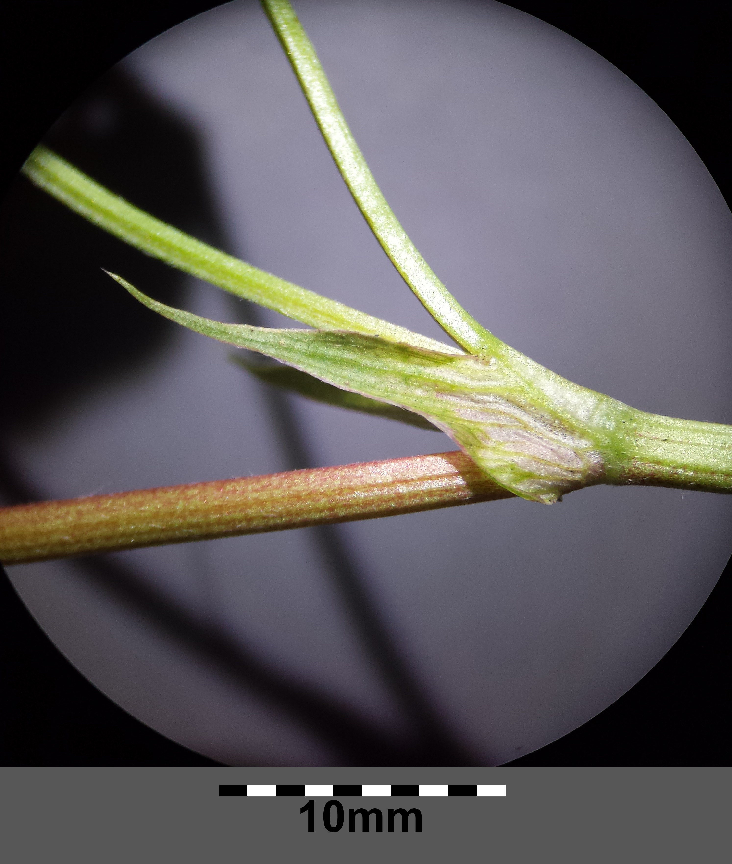 Stipe with stipules Taxonym: Trifolium hybridum subsp. hybridum ss Fischer et al. EfÖLS 2008 ISBN 978-3-85474-187-9 Location: near Komau, district Freistadt, Upper Austria - ca. 850 m a.s.l. Habitat: ruderal area